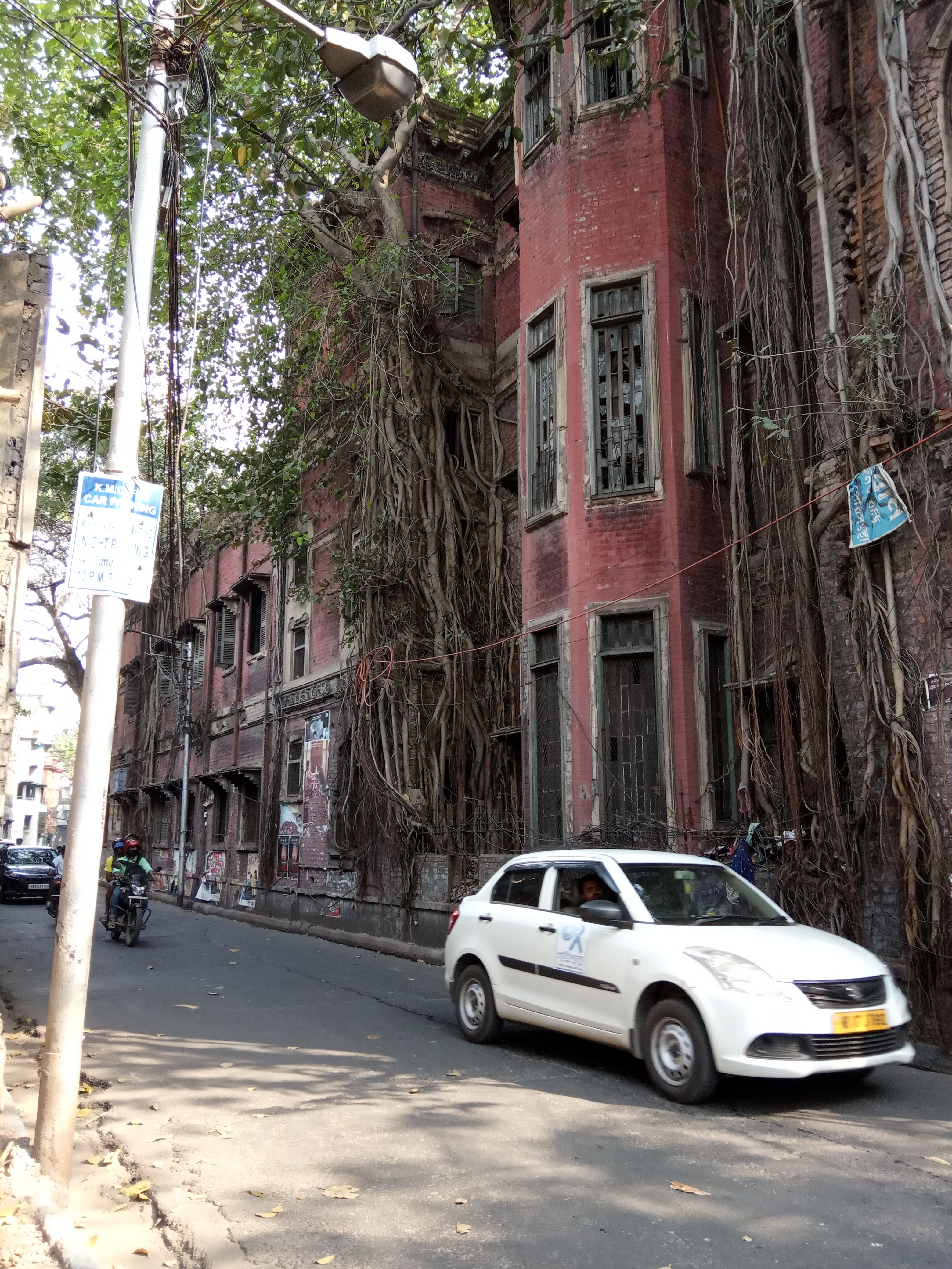 This the house of Raja Subodh Mallik, an Indian nationalist, philanthropist and industrialist. It is located behind Raja Subodh Mallik Square (popularly known as Wellington Square). The house has historical importance.